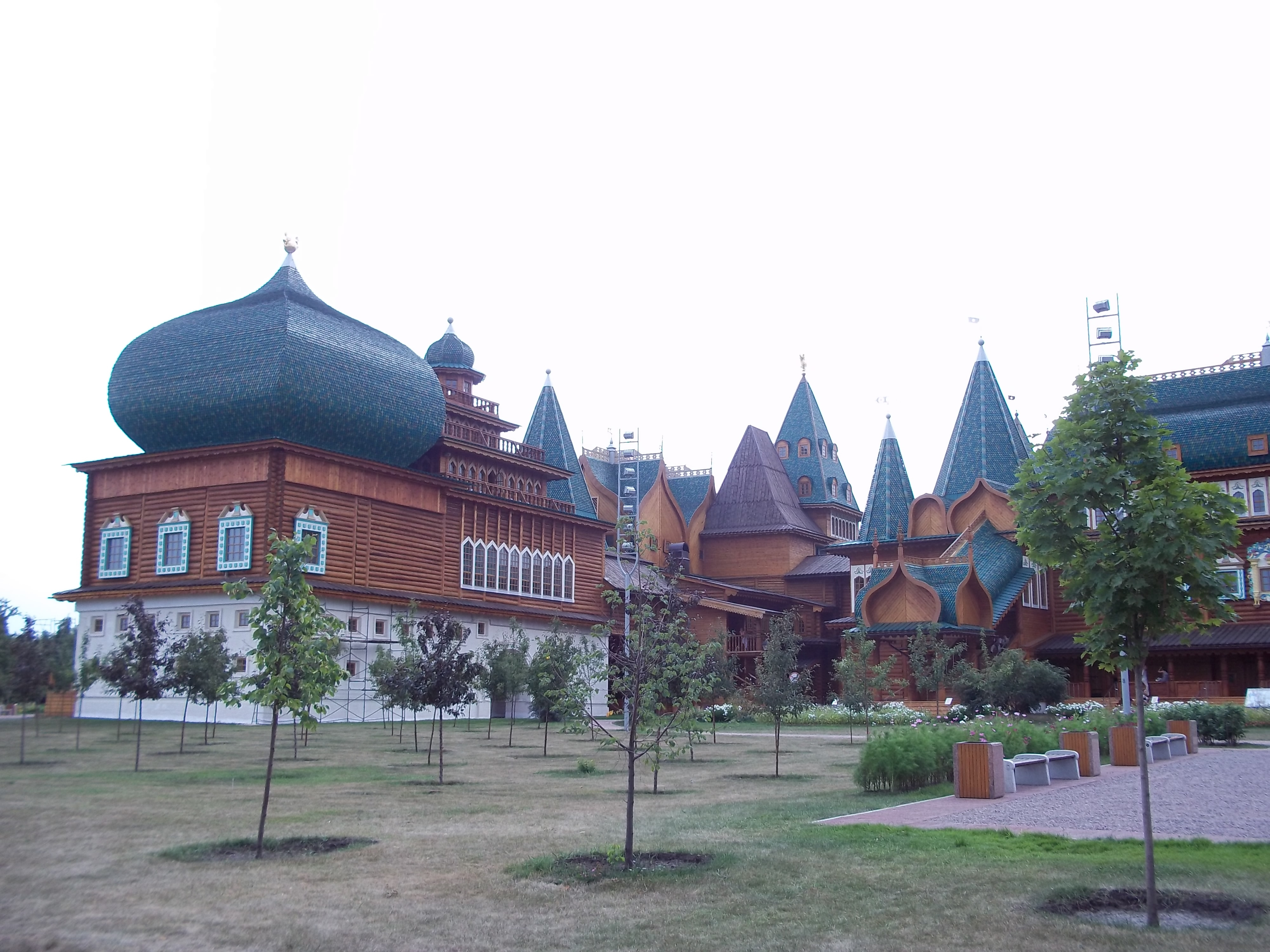 Kolomenskoe Museum, Moscow: Rebuilt wooden palace of Tsar Alexis of Russia